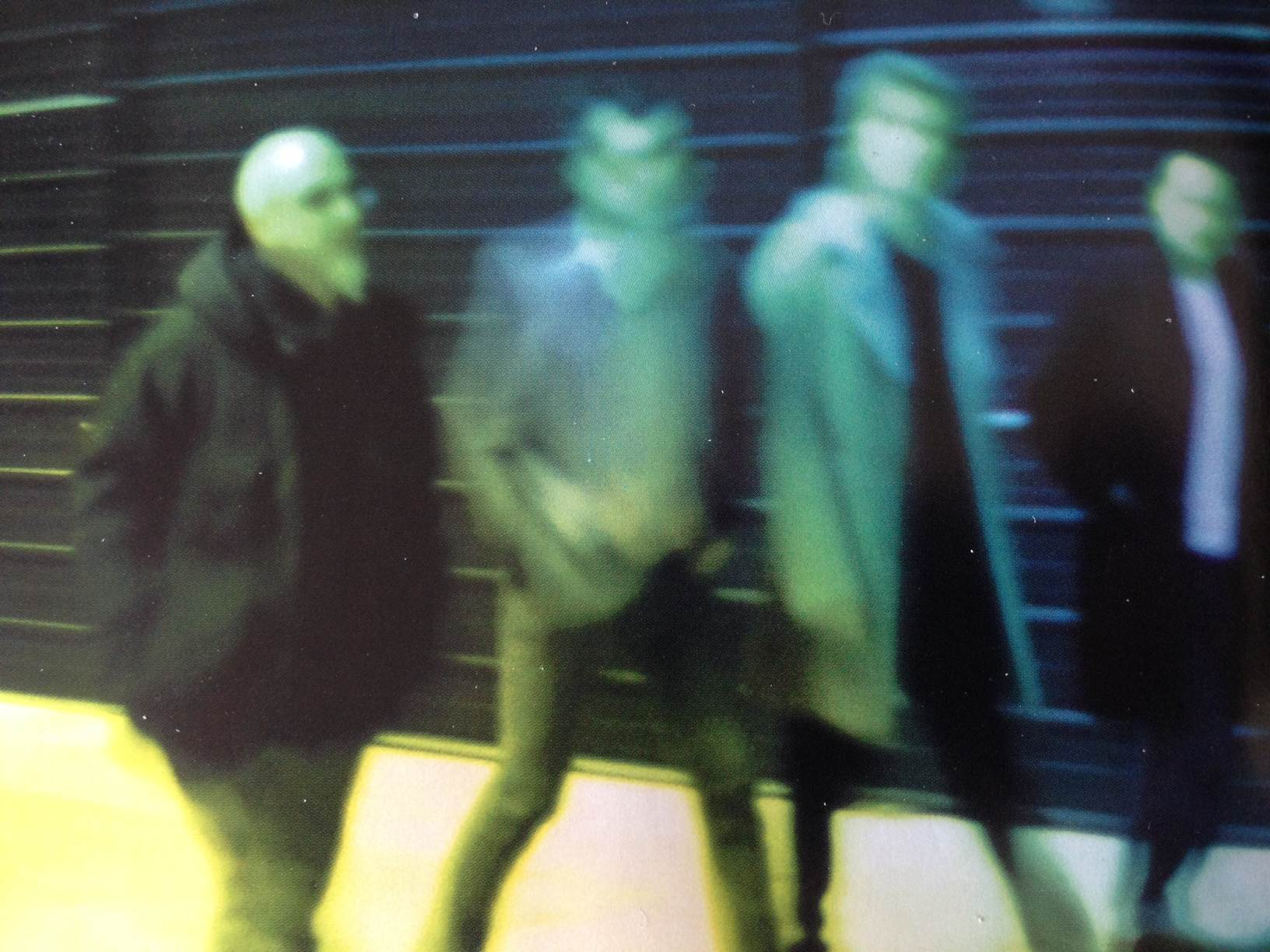 Estra rock band